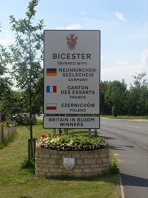 Bicester information board.